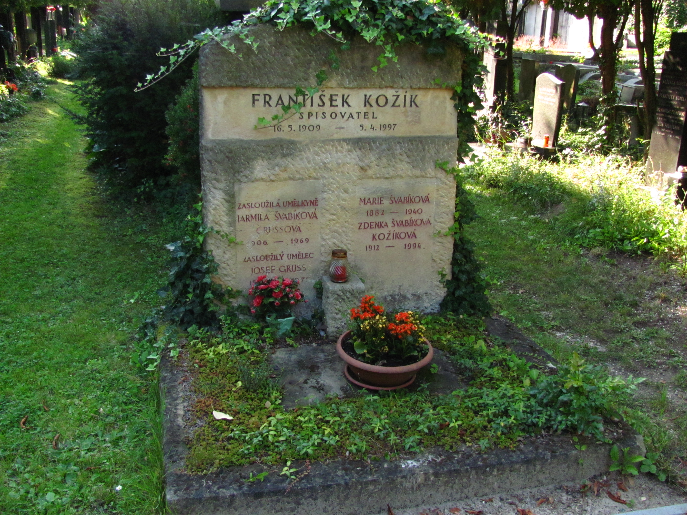 Family tomb at Vinohrady Cemetery in Prague